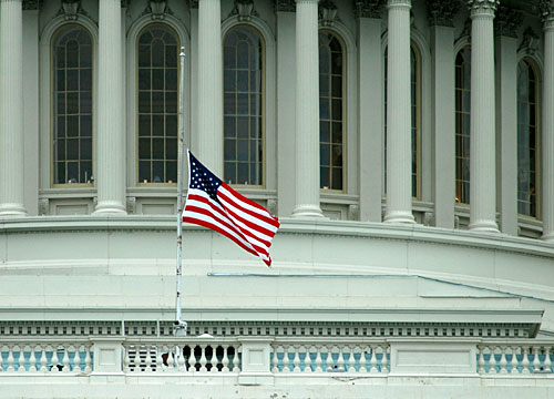 An American flag flies at half-staff in honor of former President Ronald Reagan